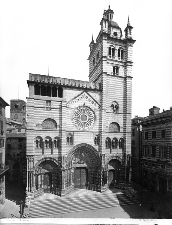 Alfred Noack (1833-1895) - "Genoa - San Lorenzo Cathedral ". Catalogue # 0001. 1870s. 1870s. 2004.